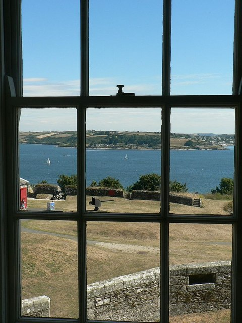 Pendennis Castle from within the Governor's Lodging. Looking out at the east side of the castle, and across Carrick Roads towards St Mawes. The Governor's Lodging consists of rooms in the oldest part of Pendennis, The Henrician Castle, which was constructed during the reign of Henry VIII. St Mawes Castle is just visible through the right-hand middle pane, and was built at the same time.